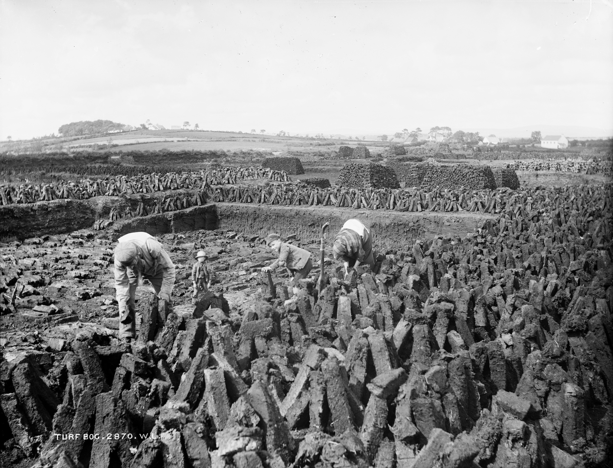 We're staying around Ballymena for another day. I like this photo for its own sake, but this was probably also a challenge on a par with locating the Linen Bleach Green, only with even less landscape features. Thanks to everyone for working away on this one to establish exactly where in the vicinity of Ballymena this was taken, especially to Tin of beans. Date: 1880s? NLI Ref.: L_ROY_02870